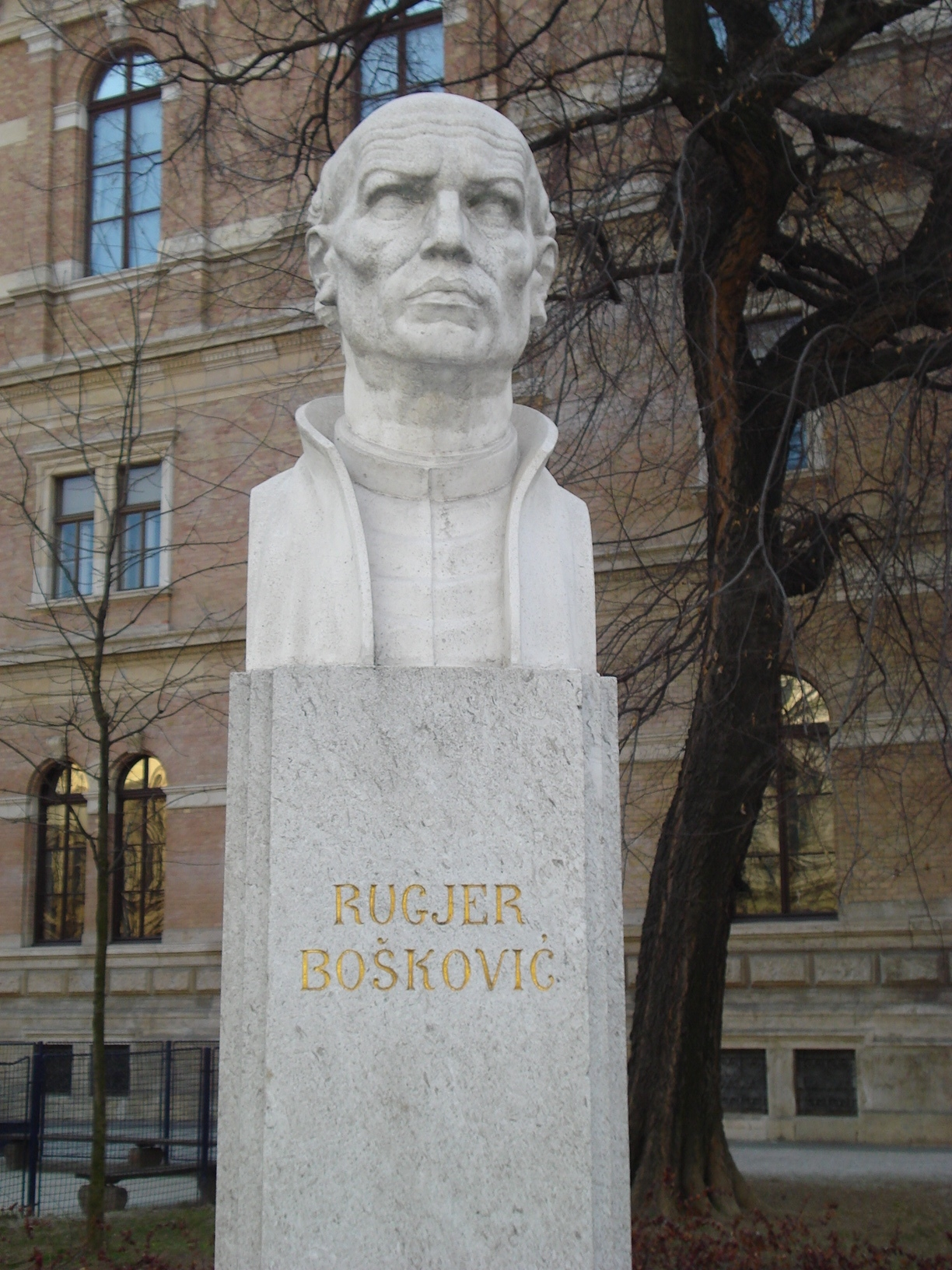 Polymath Roger Joseph Boscovich bust at J.J.Strossmayer square in Zagreb, Croatia